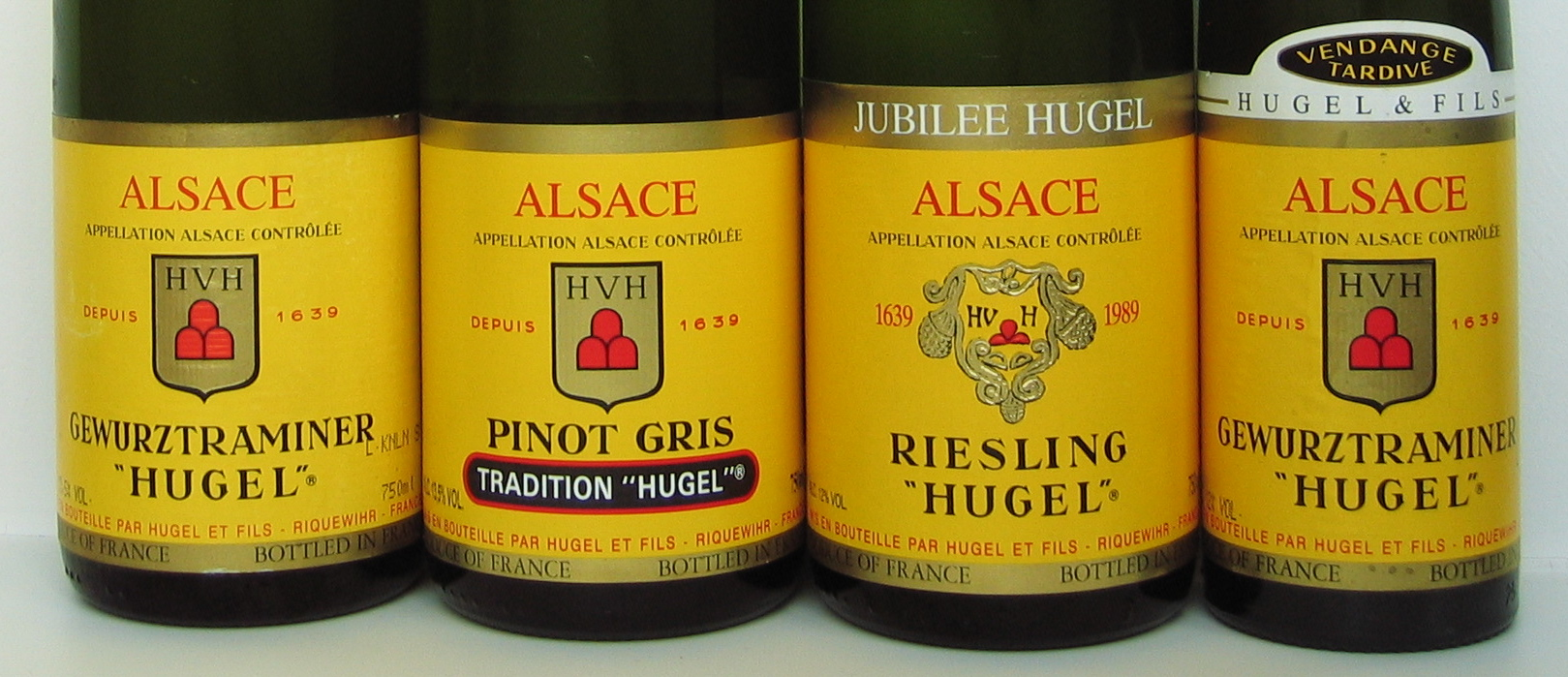 Wines from Hugel & Fils, Alsace, showing the label design of four different quality levels in the company's range.